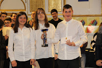 2017, XII Hernaniko Txistulari Gazteen Txapelketa